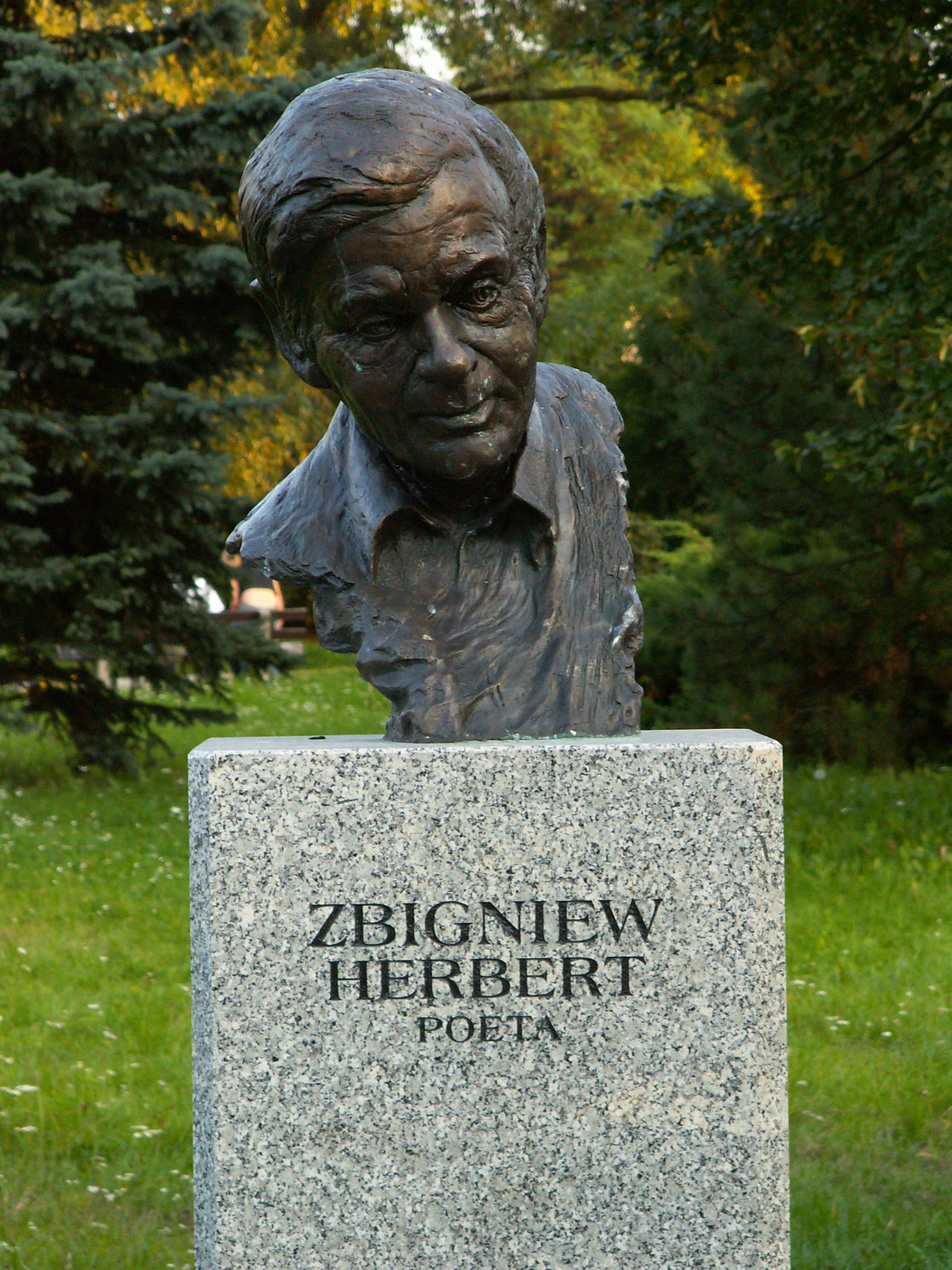 Bust of Zbigniew Herbert in Celebrity Alley in Kielce (Poland)